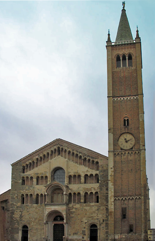 Fassade of the cathedral in Parma, Italy